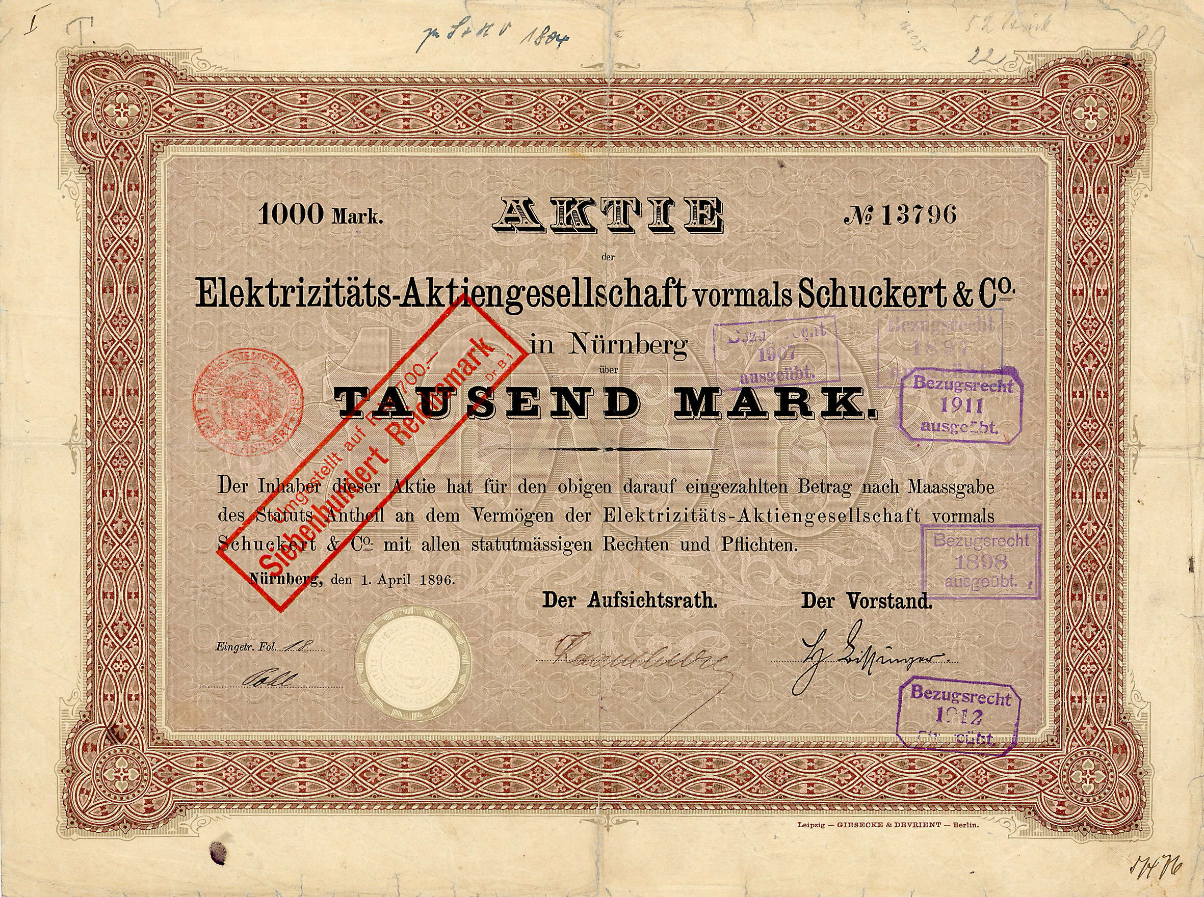 Share of the Elektrizitäts-AG vormals Schuckert & Co., issued 1. April 1896